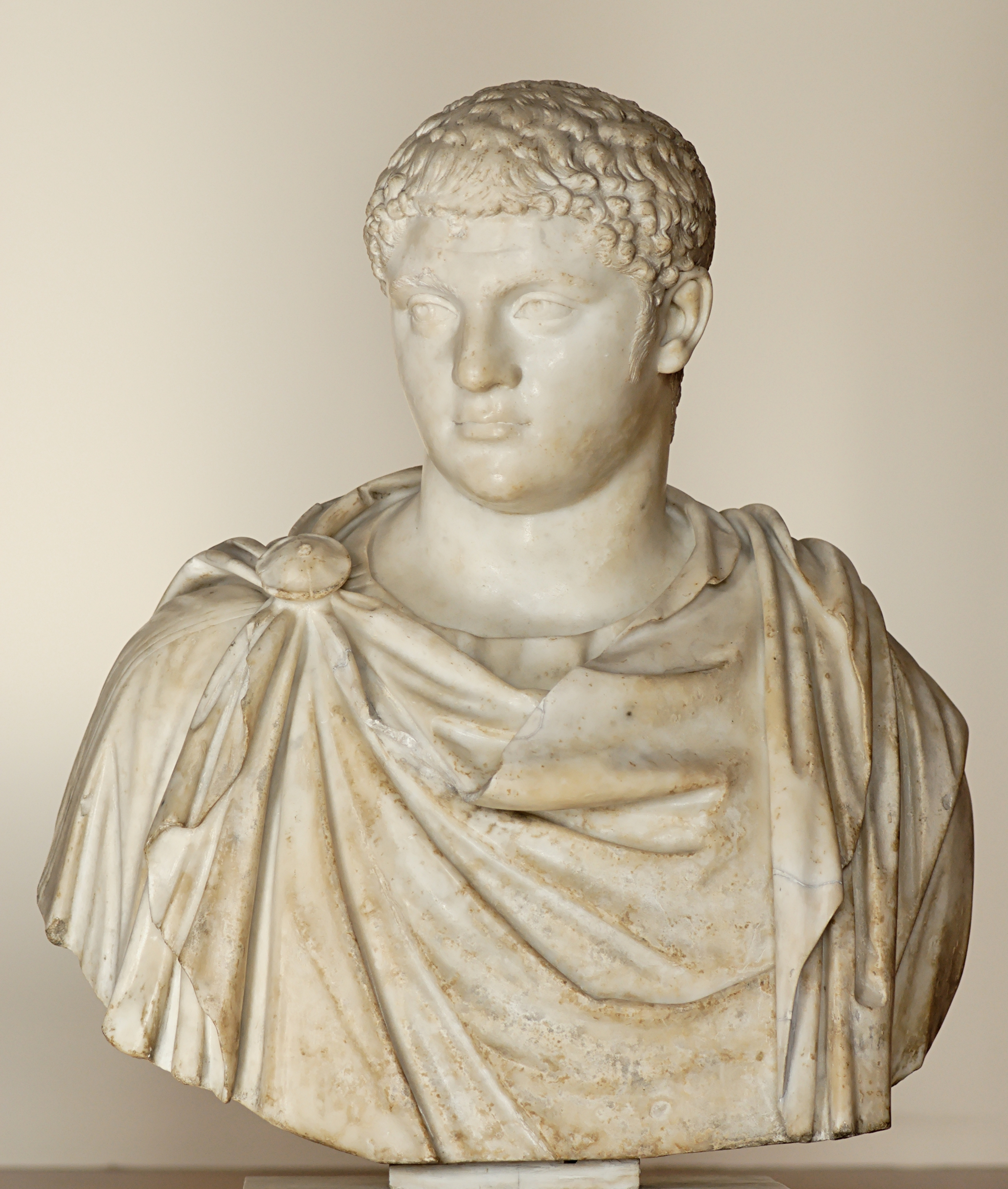 Publius Septimius Geta. Marble, Roman artwork, ca. 208 CE. From Gabies.